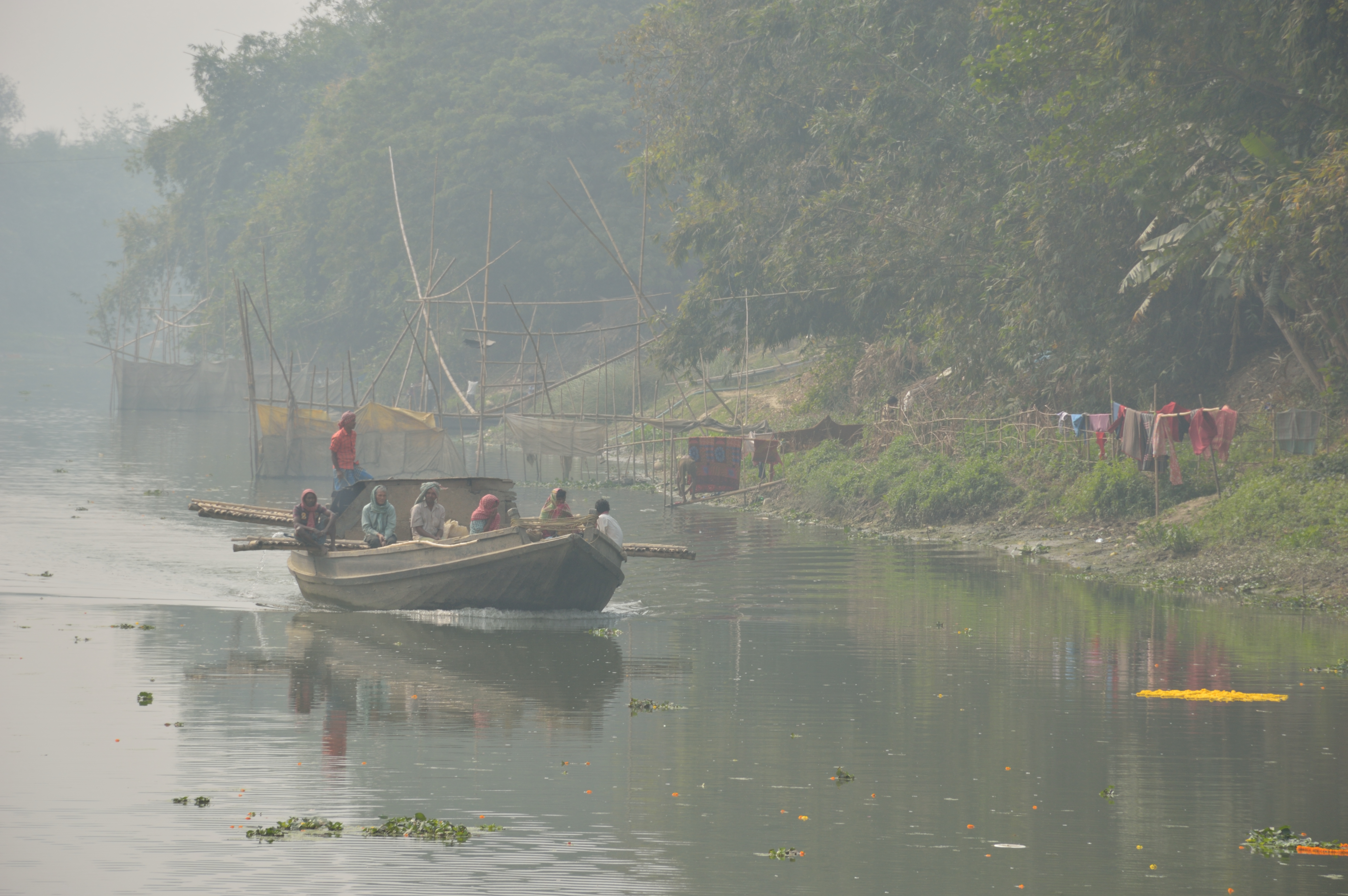 Photographed at Kundupara, Hijuli, Halalpur Krishnapur at Nadia district, West Bengal.